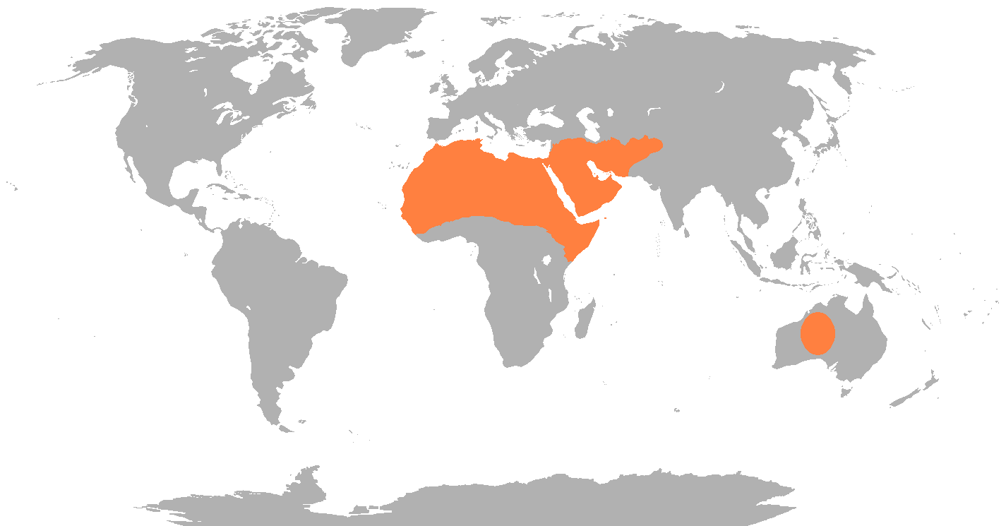 Map showing range of the Dromedary.